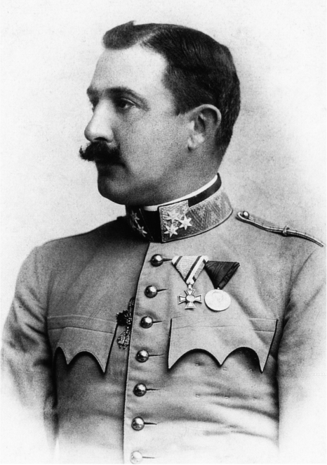 Archduke Otto Franz of Austria